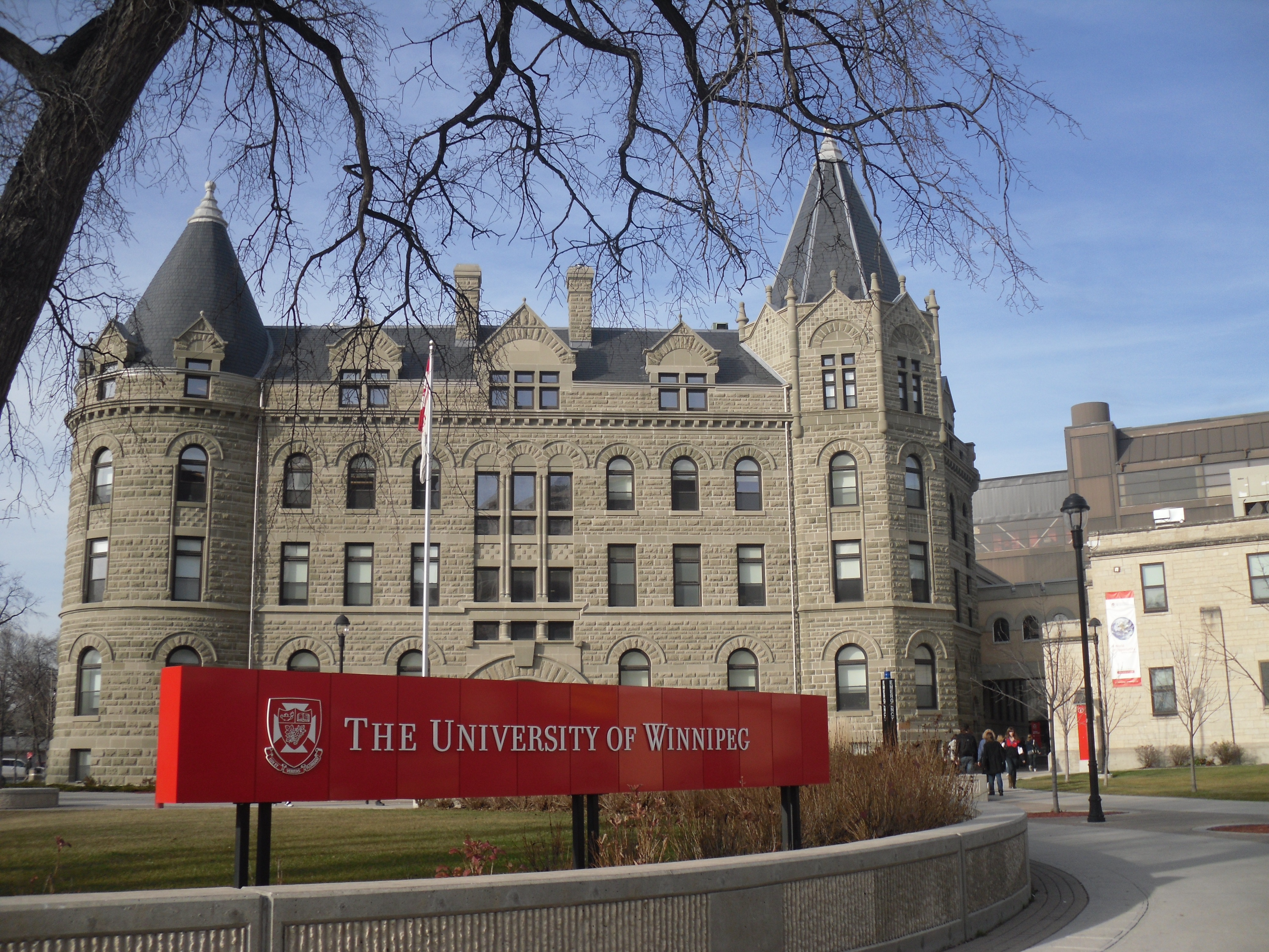 Front view of the University of Winnipeg and U of W Collegiate, take from Portage Avenue.